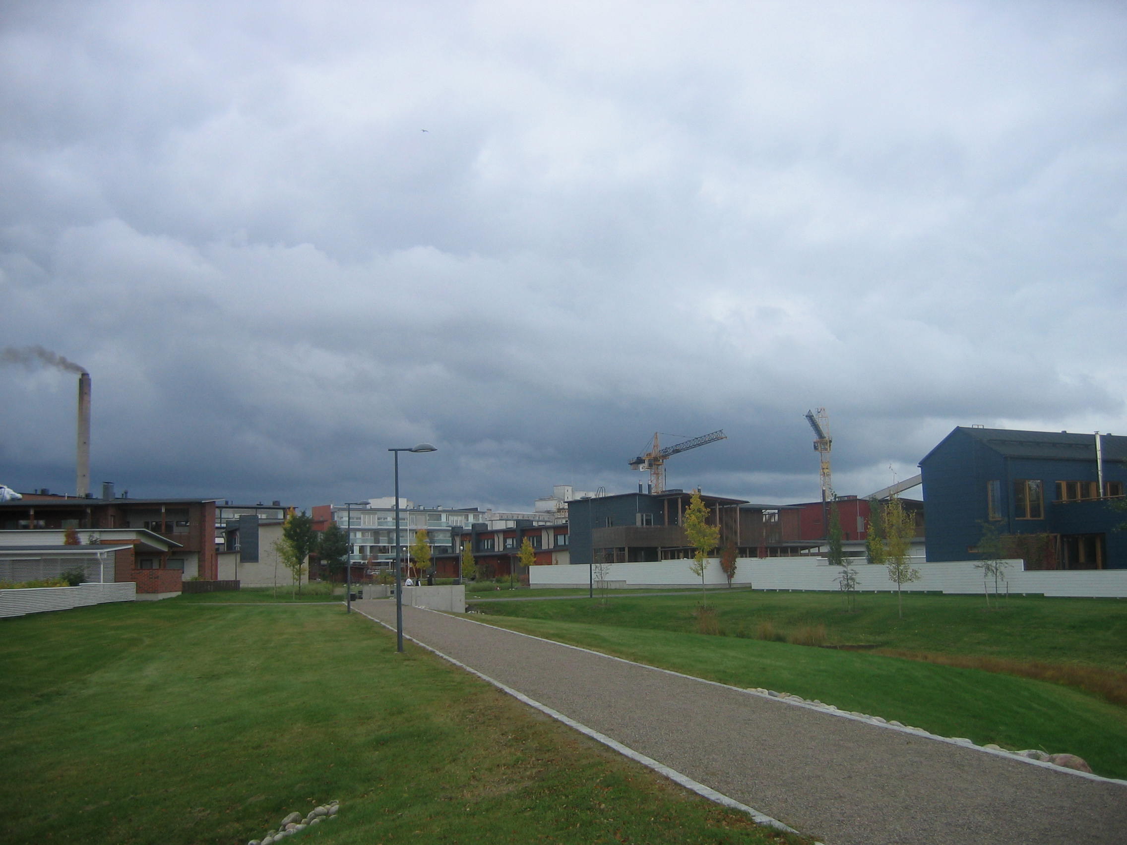 A bicycle path in Toppilansaari, Oulu, Finland.